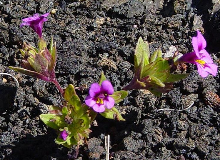 Image taken in July 2004 by Daniel Mayer.